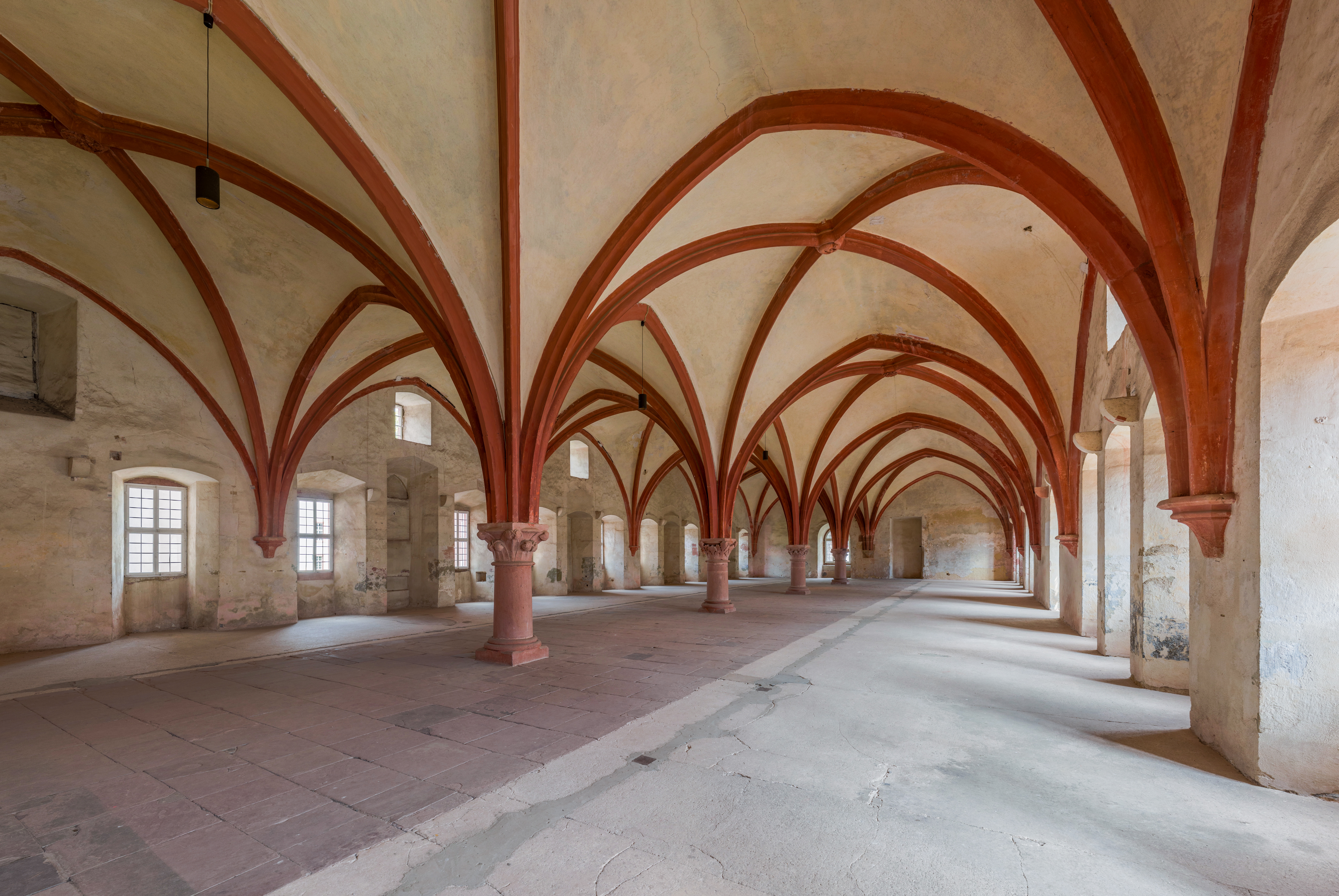 The monks' dormitory of Kloster Eberbach